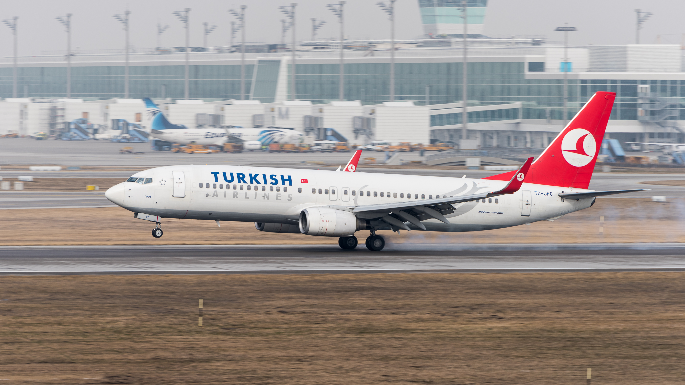 Turkish Airlines Boeing 737-8F2 (reg. TC-JFC) at Munich Airport (IATA: MUC; ICAO: EDDM).